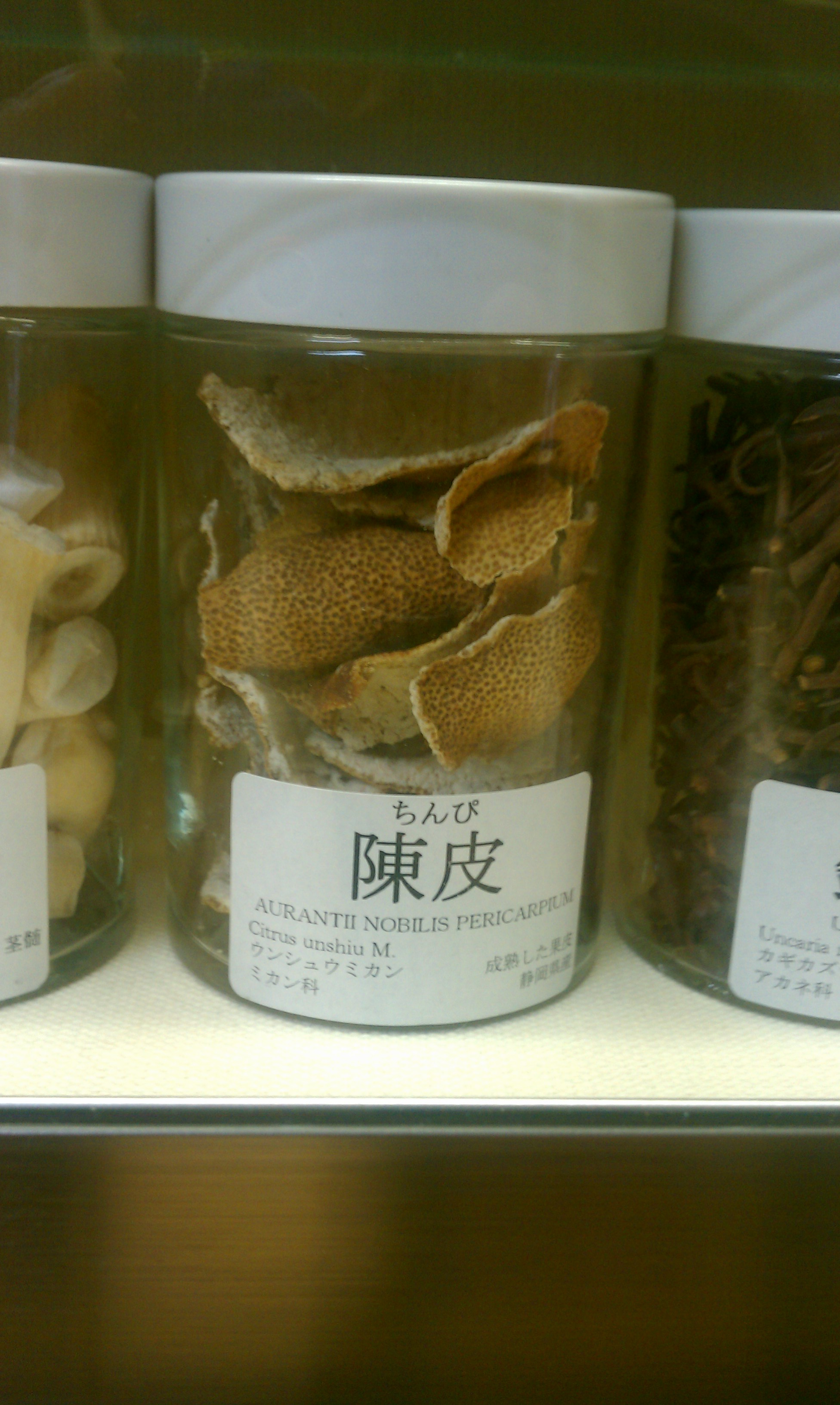 Chenpi is sun-dried tangerine (mandarin) peel used as a traditional seasoning in Chinese cooking and traditional medicine